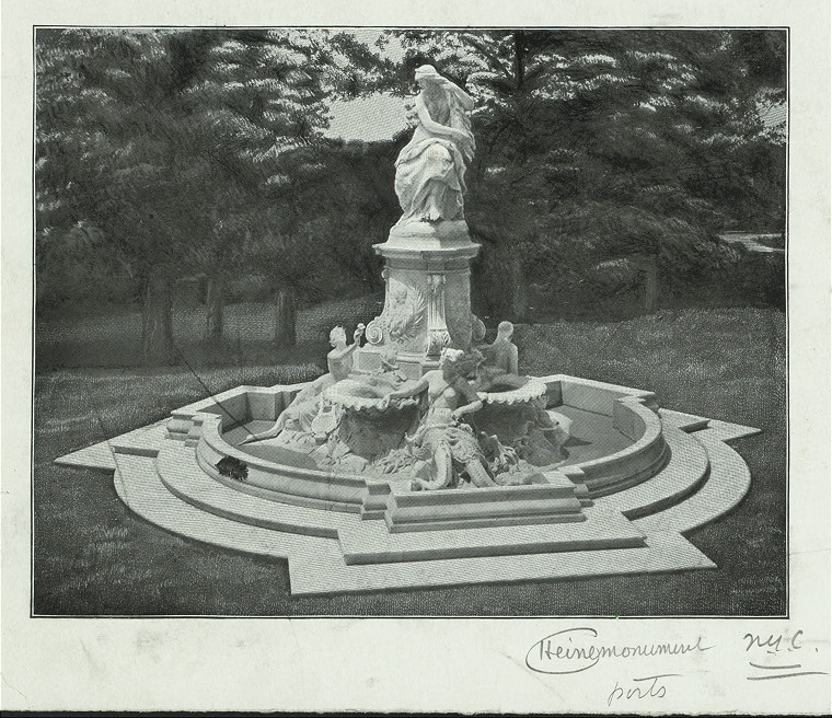 Loreley fountain by Ernst Herter, initially commissioned by Heine fan Empress Elisabeth of Austria, later rejected by Elisabeth and Düsseldorf, Germany, finally commissioned and paid by German-Americans in New York now (= around 1899) in the Bronx, New York City.